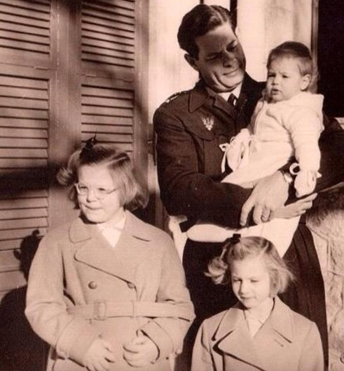 King Michael with his daughters princesses Elena, Irina and Sophie